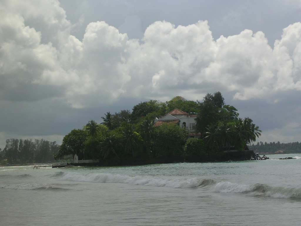 Taprobane Island, Kapparatota, Matara, Southern, Sri Lanka